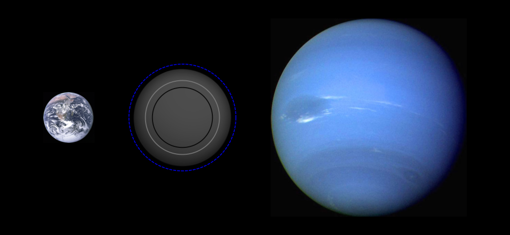 Comparison of several possible sizes for the exoplanet PSR B1257+12 B with the Solar System planets Earth and Neptune, using approximate models of planetary radius as a function of mass[1] for several possible compositions, based on mass reported in the Open Exoplanet Catalogue[2] as of 2010-09-30. Models include: water world with a rocky core, composed of 75% H2O, 3% Fe, 22% MgSiO3 hypothetical pure water (ice) planet, the largest size for PSR B1257+12 B without a significant H/He envelope rocky terrestrial "Earth-like" planet, composed of 67% Fe, 32.5% MgSiO3 hypothetical pure iron planet, PSR B1257+12 B's theoretical smallest size PSR B1257+12 B is not likely to be smaller than the iron planet, and will be considerably larger than the water planet if significant H or He is present. For non-transiting planets, all modeled sizes will be underestimates to the extent that the planet's actual mass is larger than the reported minimum mass. ↑ Seager, S.; M. Kuchner, C. A. Hier-Majumder and B. Militzer (2007). "Mass–radius relationships for solid exoplanets". The Astrophysical Journal 669: 1279–1297. Retrieved on 2010-08-27. ↑ Open Exoplanet Catalogue (2010-09-30). Retrieved on 2010-09-30.